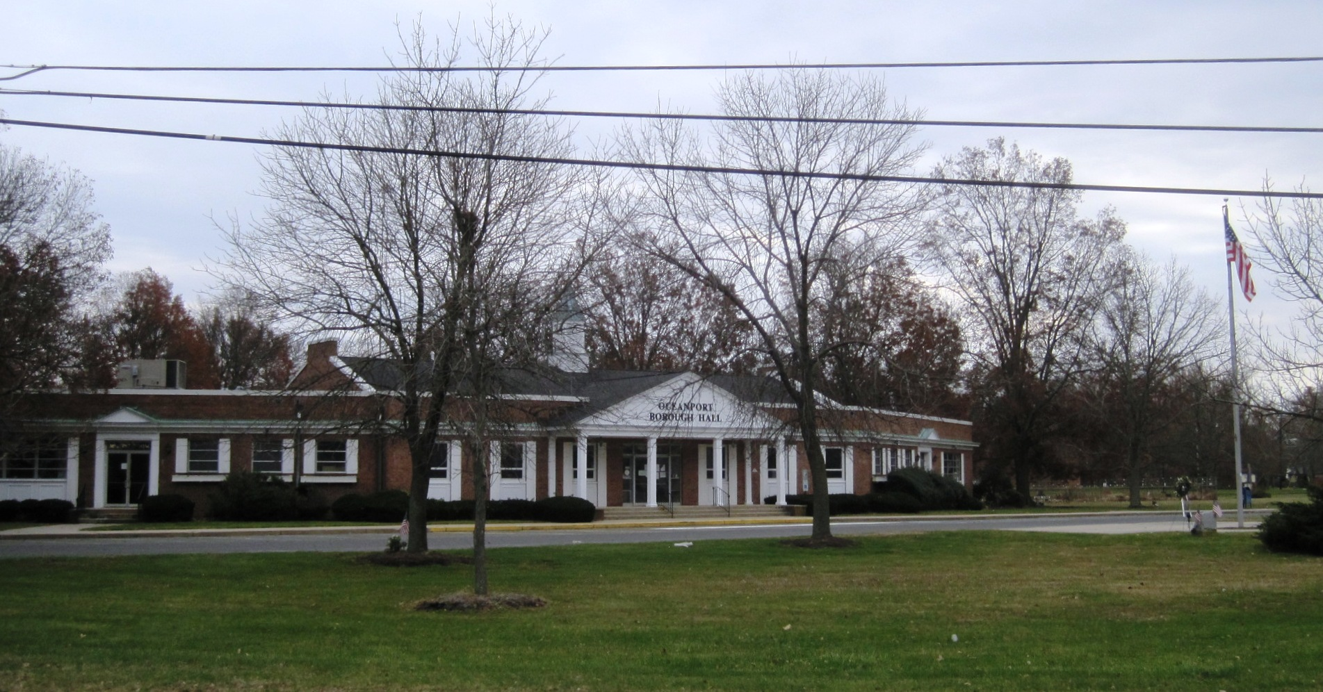 Photo showing the former borough hall of Oceanport, New Jersey. Photo taken along Monmouth Boulevard (County Route 33) near its intersection with Myrtle Avenue (CR 29A). Note: Building was not housing the municipal offices at the time of the photo as the building was flooded during Hurricane Sandy. The building was demolished in 2017.[1]